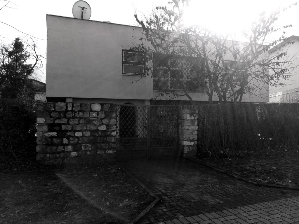 Индивидуална куќа на архитект Драган томовски во Скопје